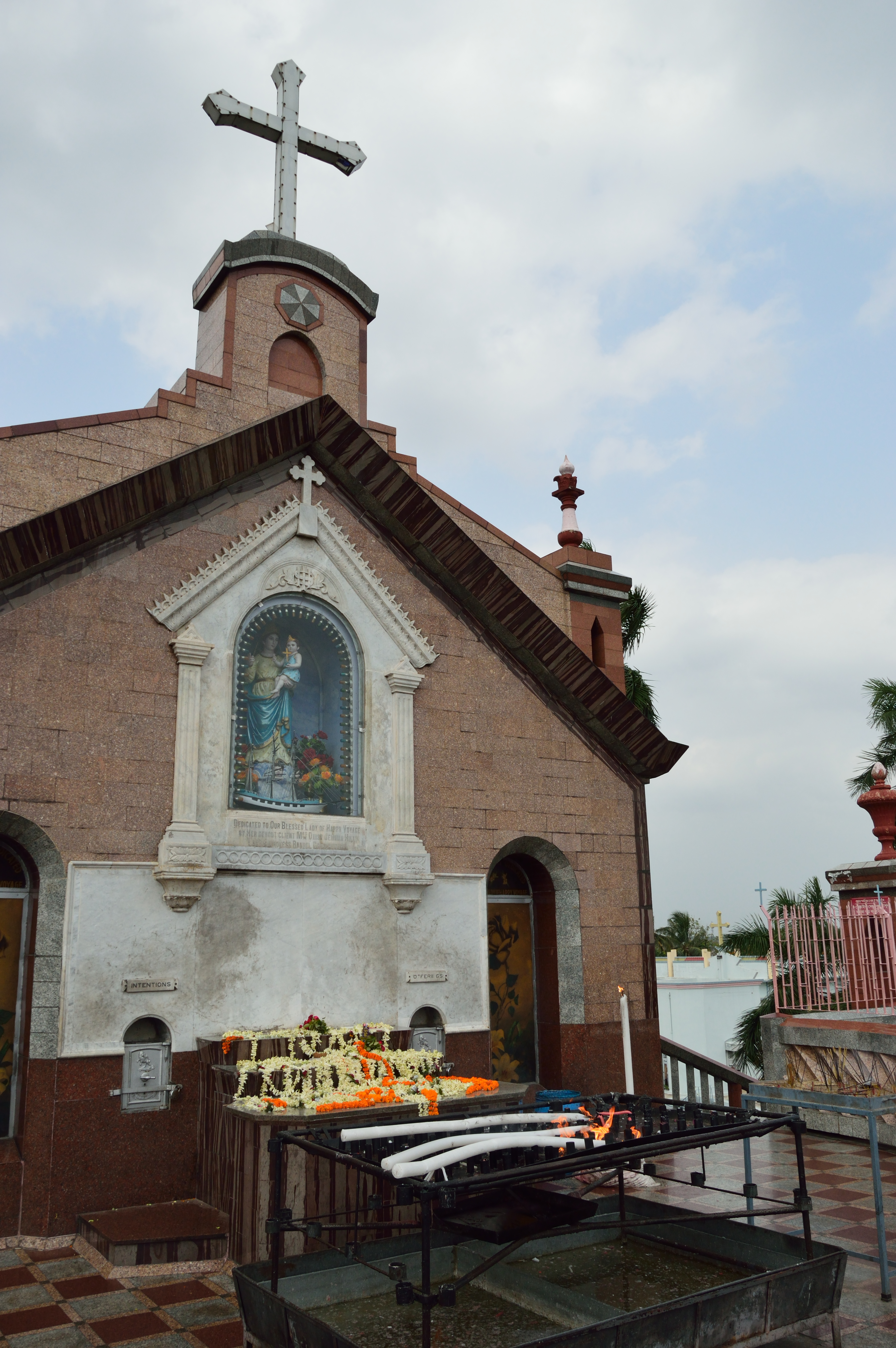 The Basilica of the Holy Rosary or Bandel Church, Bandel, Hooghly, West Bengal, India.